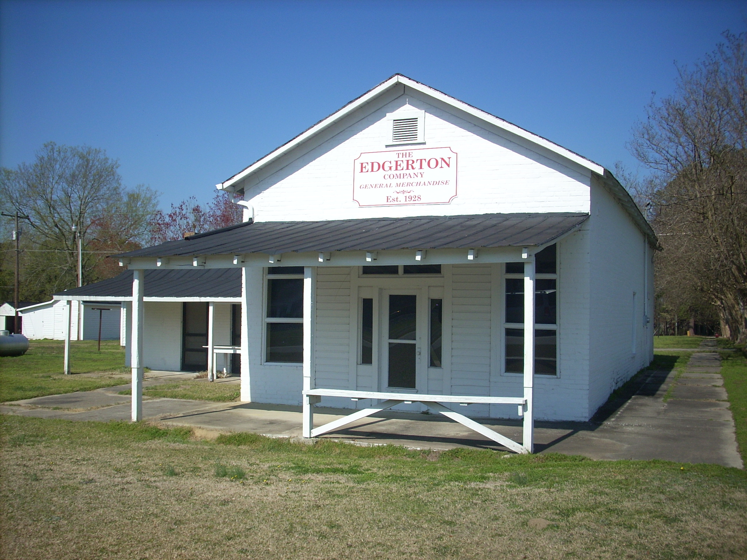 The Edgerton Company. This is an old general store on the RR tracks in Godwin. The exterior appears to be in very nice condition. The windows are boarded up on the interior.